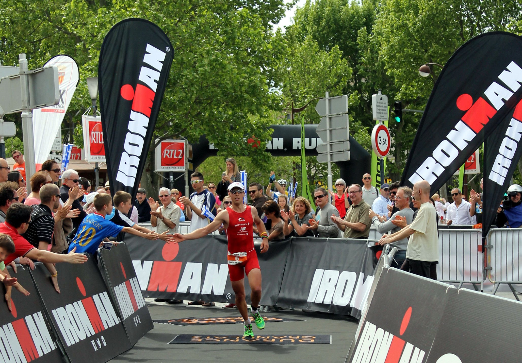 Andreas Bocherer Winner Ironman 70.3 Pays d'Aix (France) 2015